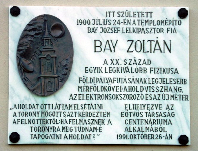 Tablet on birthplace of Bay Zoltán, in Gyulavári.